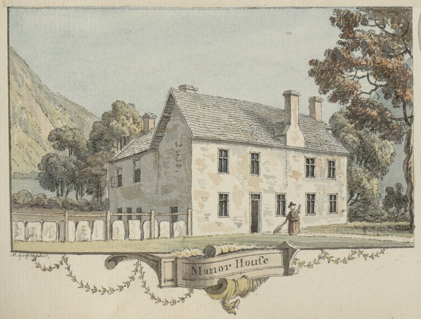 An image from a set of 8 extra-illustrated volumes of A tour in Wales by Thomas Pennant (1726-1798) that chronicle the three journeys he made through Wales between 1773 and 1776. These volumes are unique because they were compiled for Pennant's own library at Downing. This edition was produced in 1781. The volumes include a number of original drawings by Moses Griffiths, Ingleby and other well known artists of the period. Thomas Pennant (1726-1798)